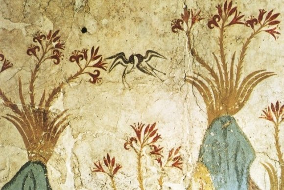 Description: Fresco with motives of the spring from the bronze age excavations in Akrotiri on the greek island of Santorini Licence